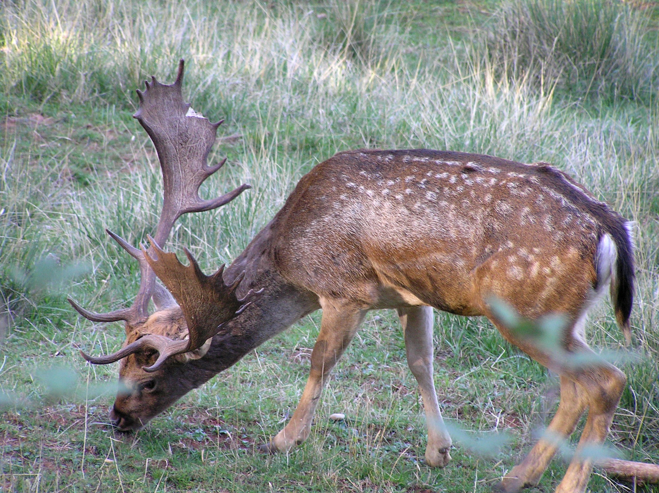 Gamo